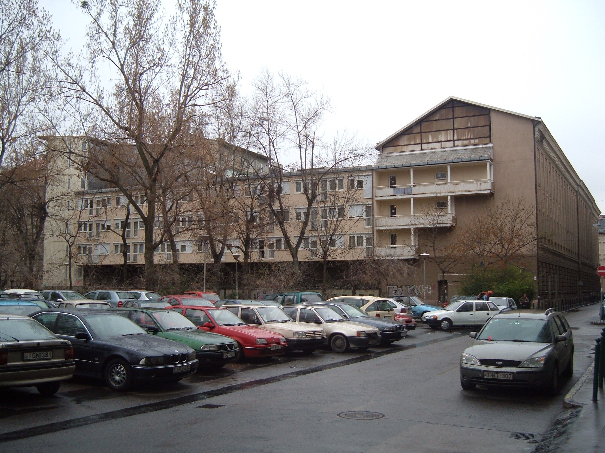 Ráday Boarding House, Budapest